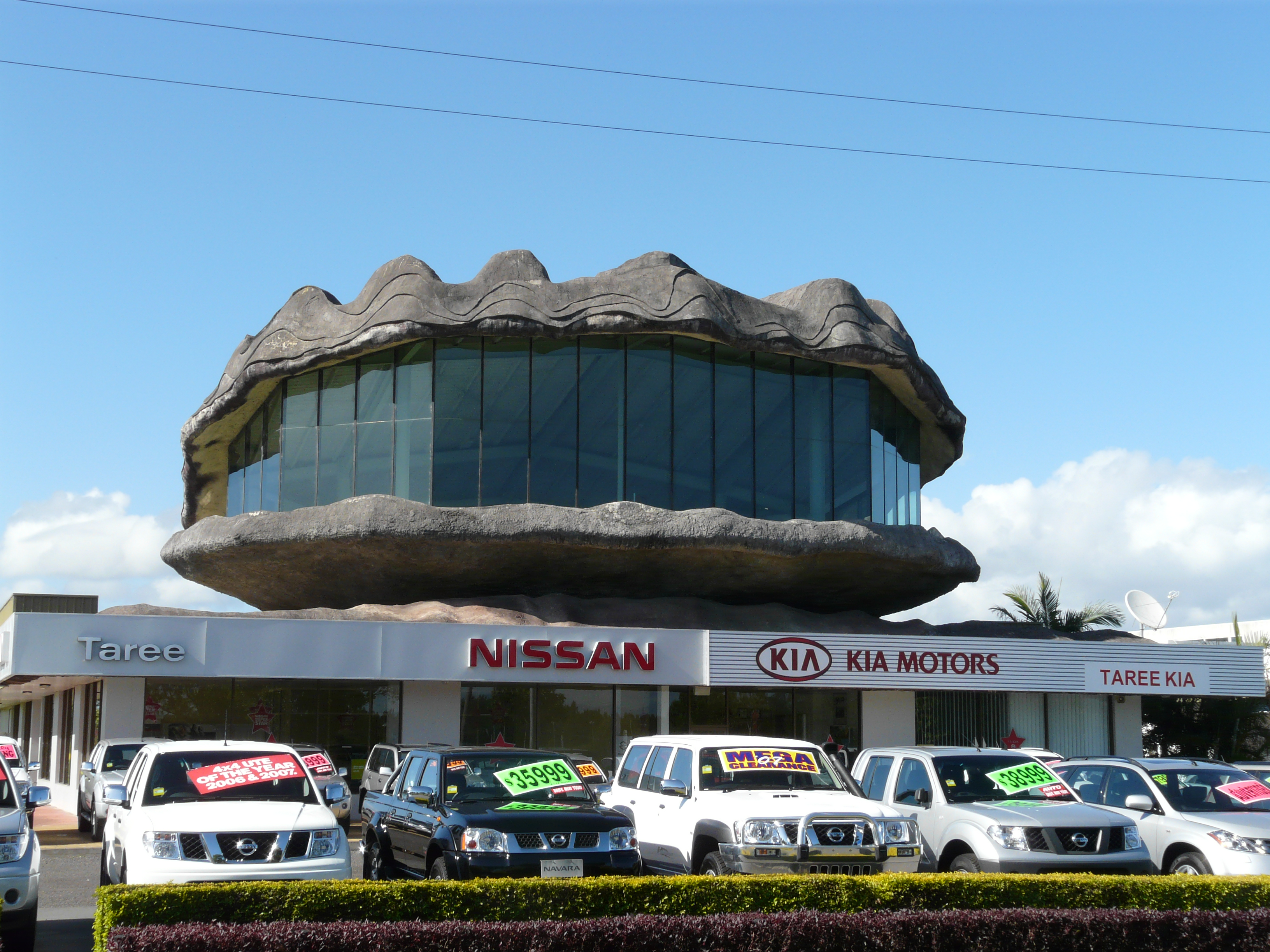 The Big Oyster at Taree, NSW which is now a feature of a local car dealer.